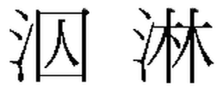 Phonogram examples for the article "Fonograma (lingüística)"